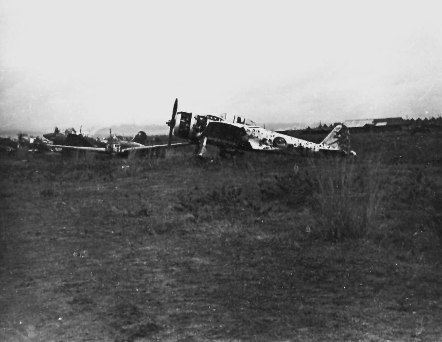 Abandoned Japanese fighters at Clark Field, Luzon (Philippines), in 1945. In front is a Nakajima Ki-43 Hayabusa (Allied code name "Oscar").